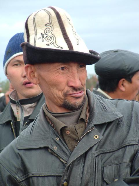 Kyrgyz person in the market at Karakol